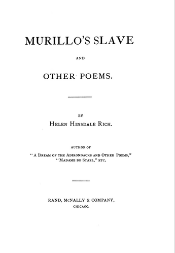 Murillo's Slave and Other Poems, By Helen Hinsdale Rich